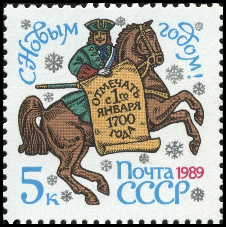 A USSR stamp, Happy New Year, designer V. Koval Perf. 12 Preobrazhensky Regiment bodyguard riding to announce Peter the Great’s decree to celebrate new year’s eve as of January 1, 1700 Value: 0,05